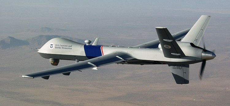 CBP Air and Marine group conduct aerial operations with their UAS aircraft over areas affected by Hurricane Ike to help broadly assess damage so as to better deploy rescuers to specific areas with the most need.